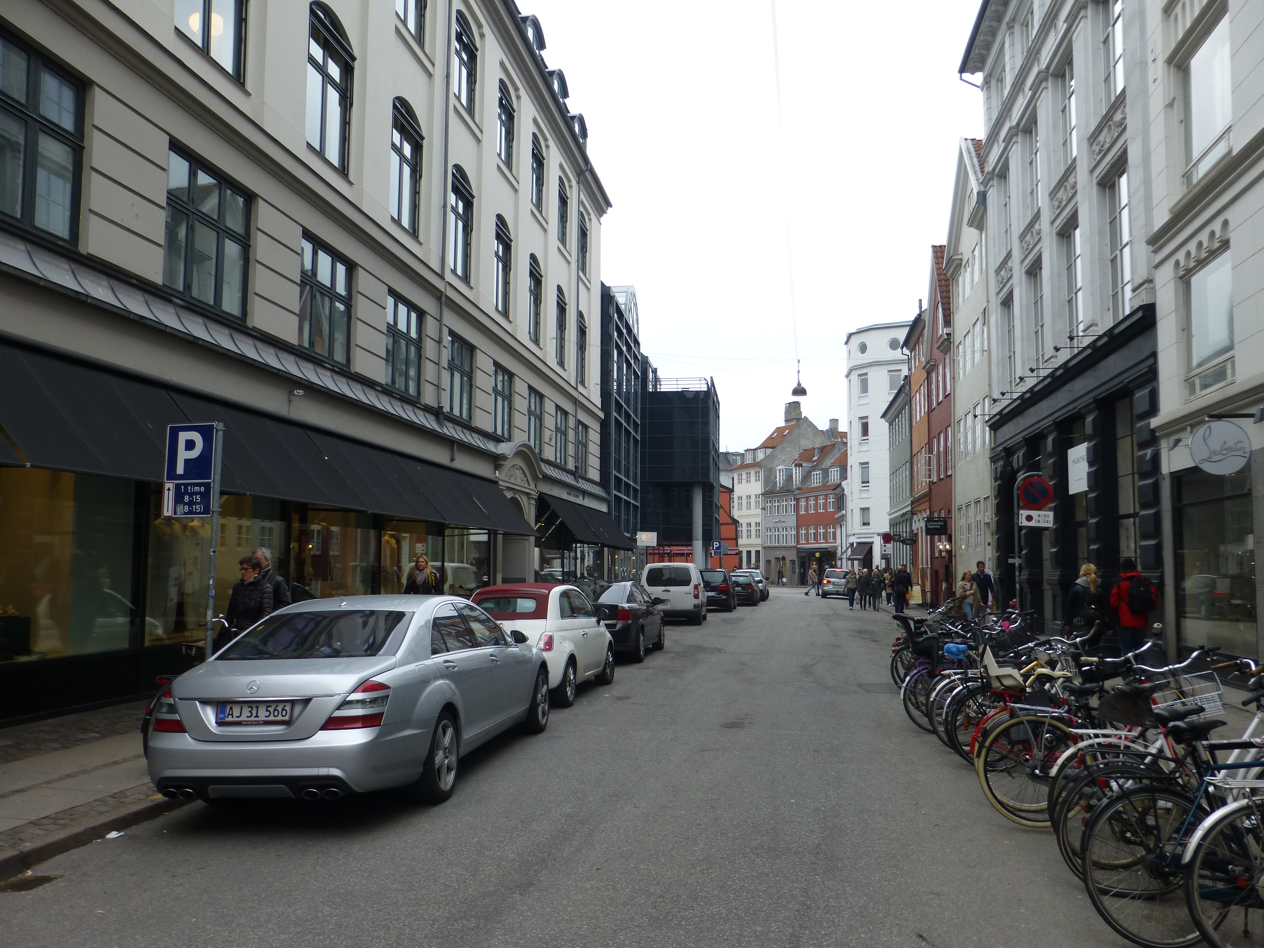 The street Grønnegade in Indre By in Copenhagen.